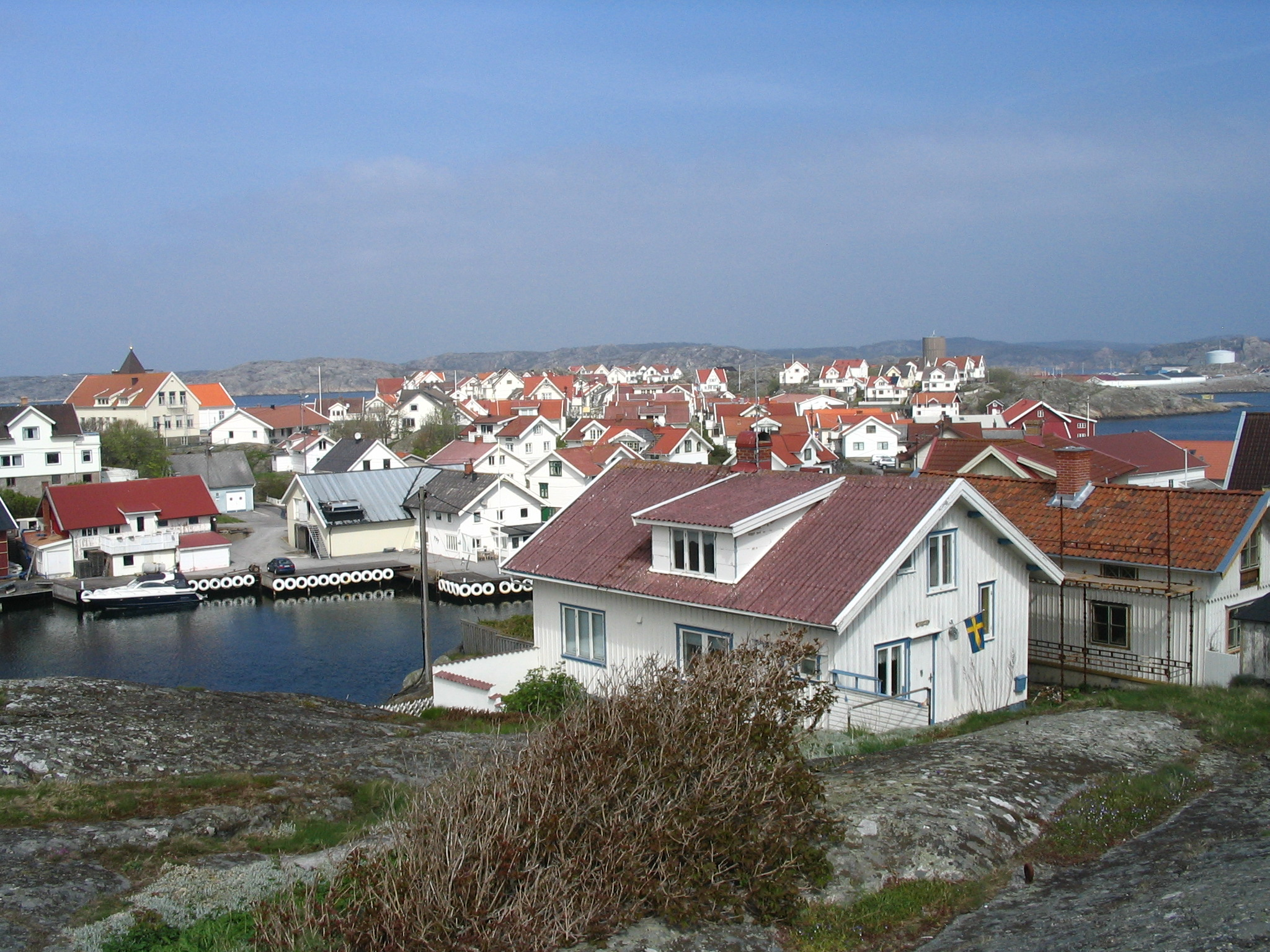 Klädesholmen on the isle of Tjörn, Sweden